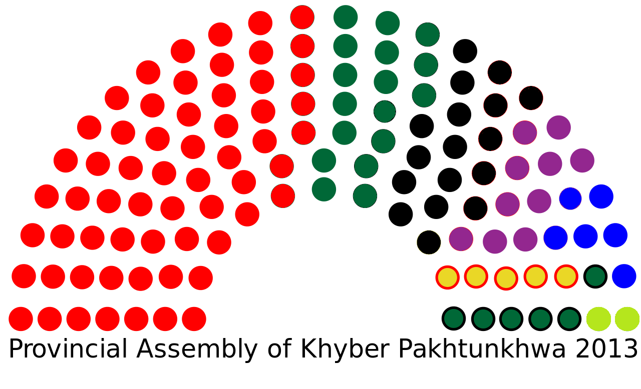 Breakdown of political party representation in the Khyber Pakhtunkhwa Assembly during the 10th Asssembly.